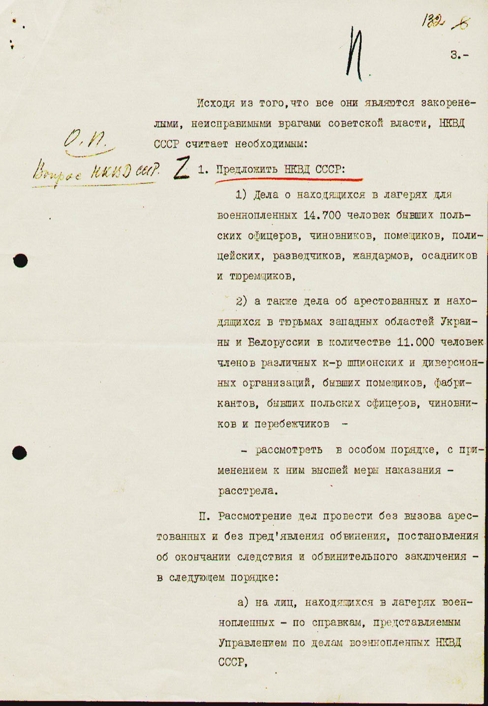 The accepted proposal of Lavrentiy Beria to execute former Polish army and police officers in NKVD prisoner of war camps and prisons, 5 March 1940